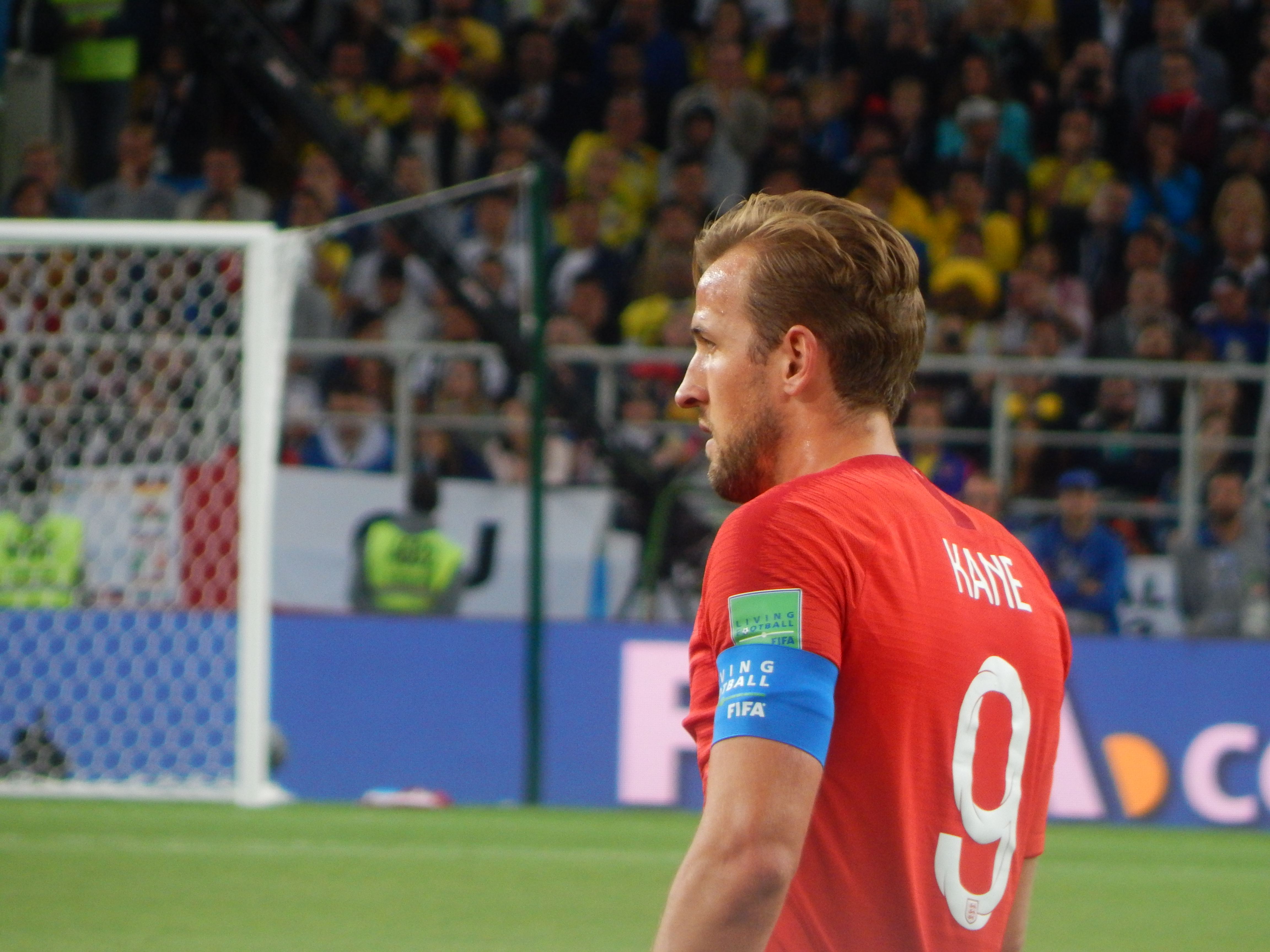 FIFA World Cup 2018, Round of 16, Colombia vs. England